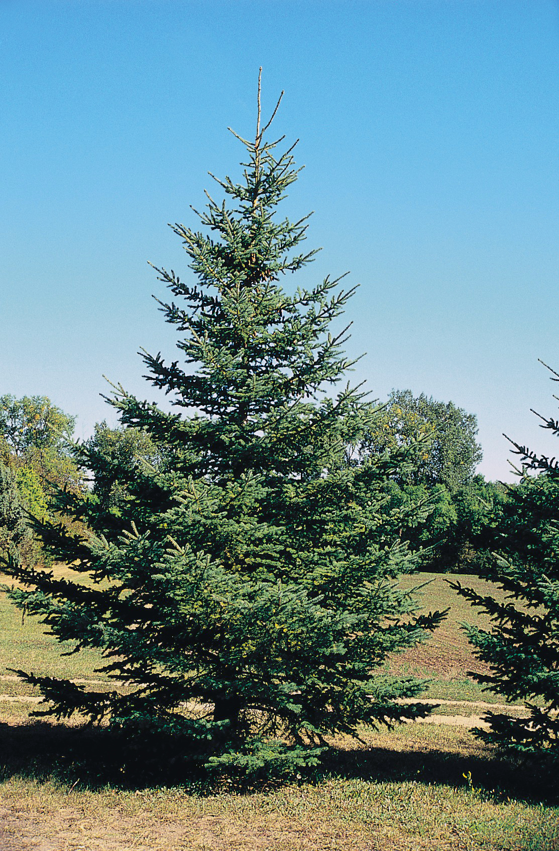 White Spruce (Black Hills Spruce). Tree.